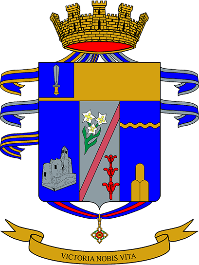 Coat of Arms of the 12° Bersaglieri Regiment; Italian Army.